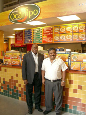 Hussein Samatar, executive director of the African Development Center of Minnesota, and Ramon Leon, executive director of the Latino Economic Development Center, stand in front of one of many restaurants and shops in the Midtown Global Market complex. It and many other commercial enterprises along Minneapolis’ Lake Street were created with help from Living Cities funds but also through the efforts of a “Careership” training program seeded 10 years ago by Living Cities. It is still going strong.